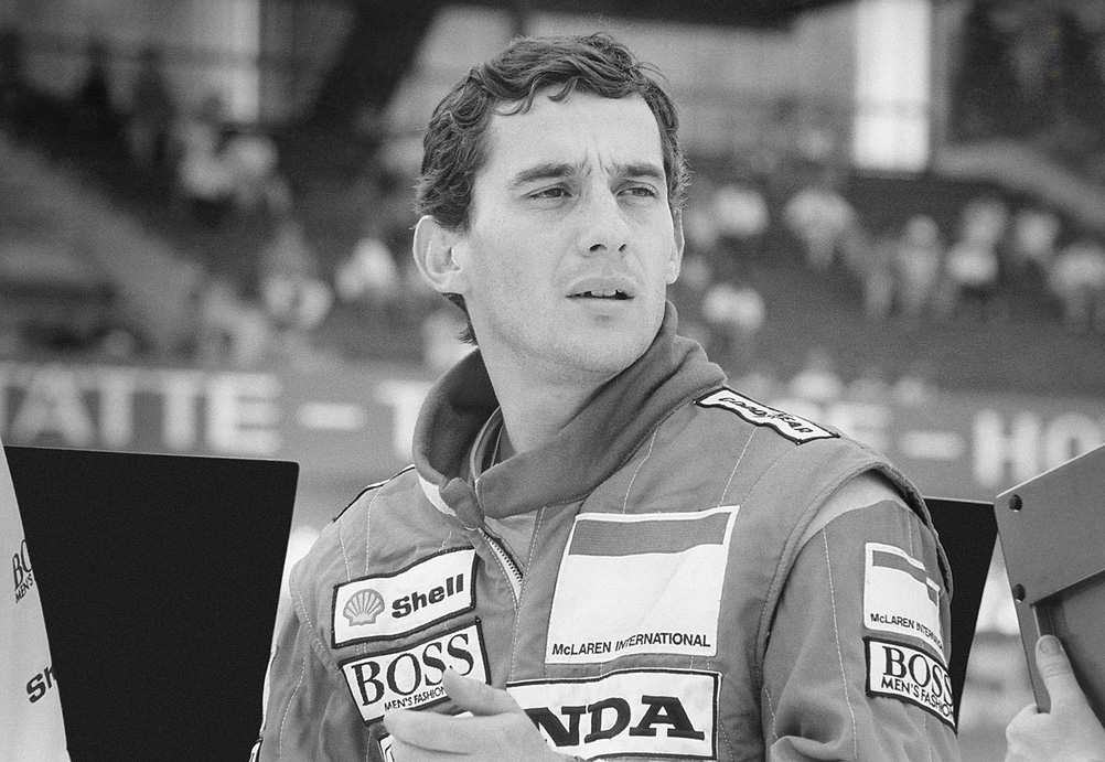 Ayrton Senna in the McLaren pit box